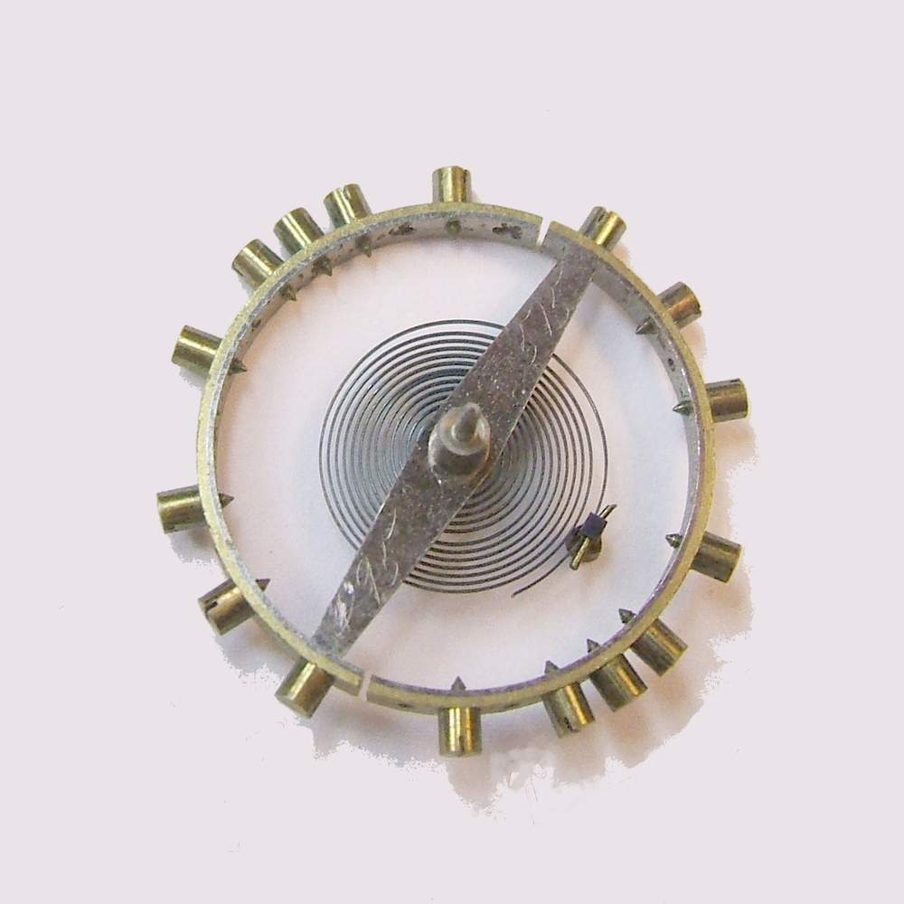 A bimetallic temperature compensated balance wheel from an early 1900s pocket watch. 1.8cm diameter. The rim is made of two bimetallic semicircular arms, composed of a layer of brass on the outside fused to a layer of steel on the inside. A rise in temperature causes the arms of the wheel to bend slightly inward, decreasing the moment of inertia, so the wheel rotates back and forth faster, compensating for the slowing caused by a decrease in elasticity of the spring.